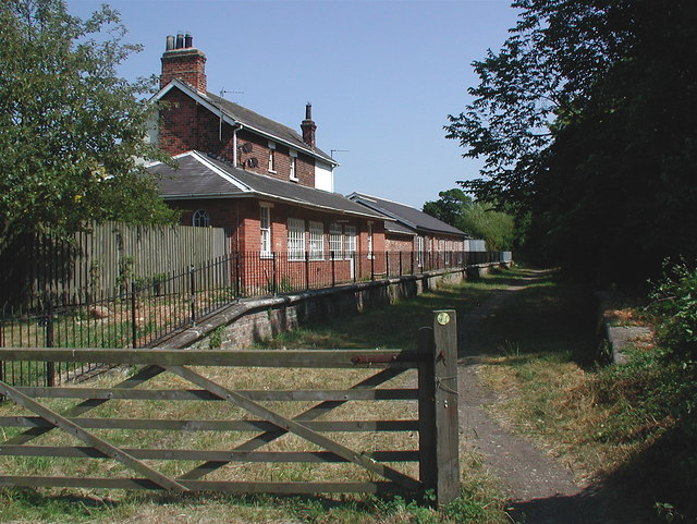 Ryehill & Burstwick Station House, Burstwick, East Riding of Yorkshire, England.Converted station buildings on the dismantled Hull to Withernsea railway line, looking east-southeast.